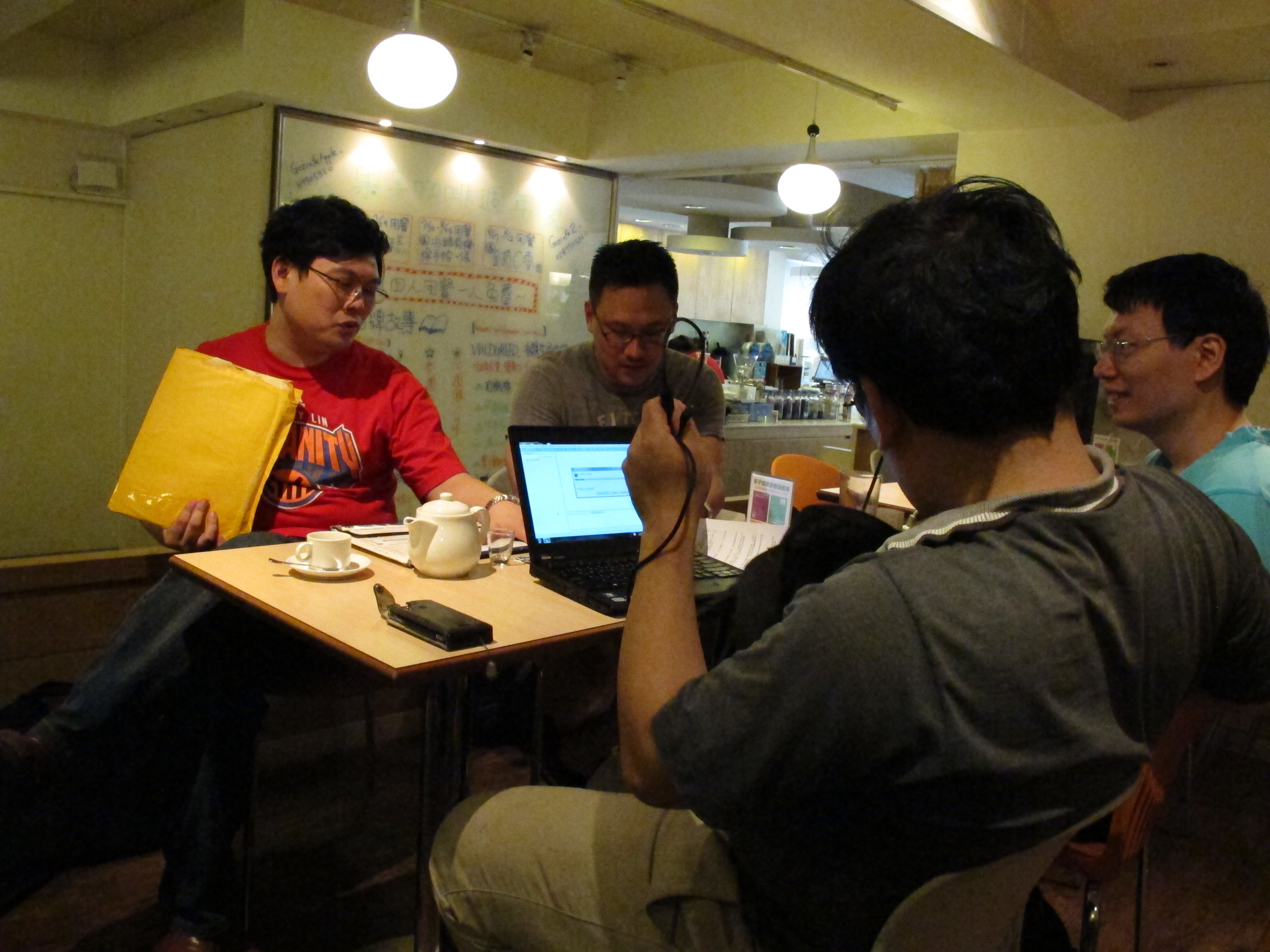 2012 Summer Meetup in Taiwan